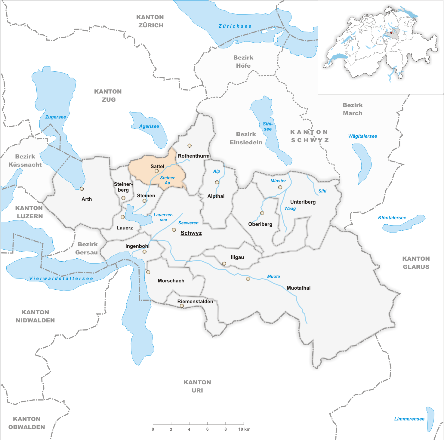 Municipality Sattel